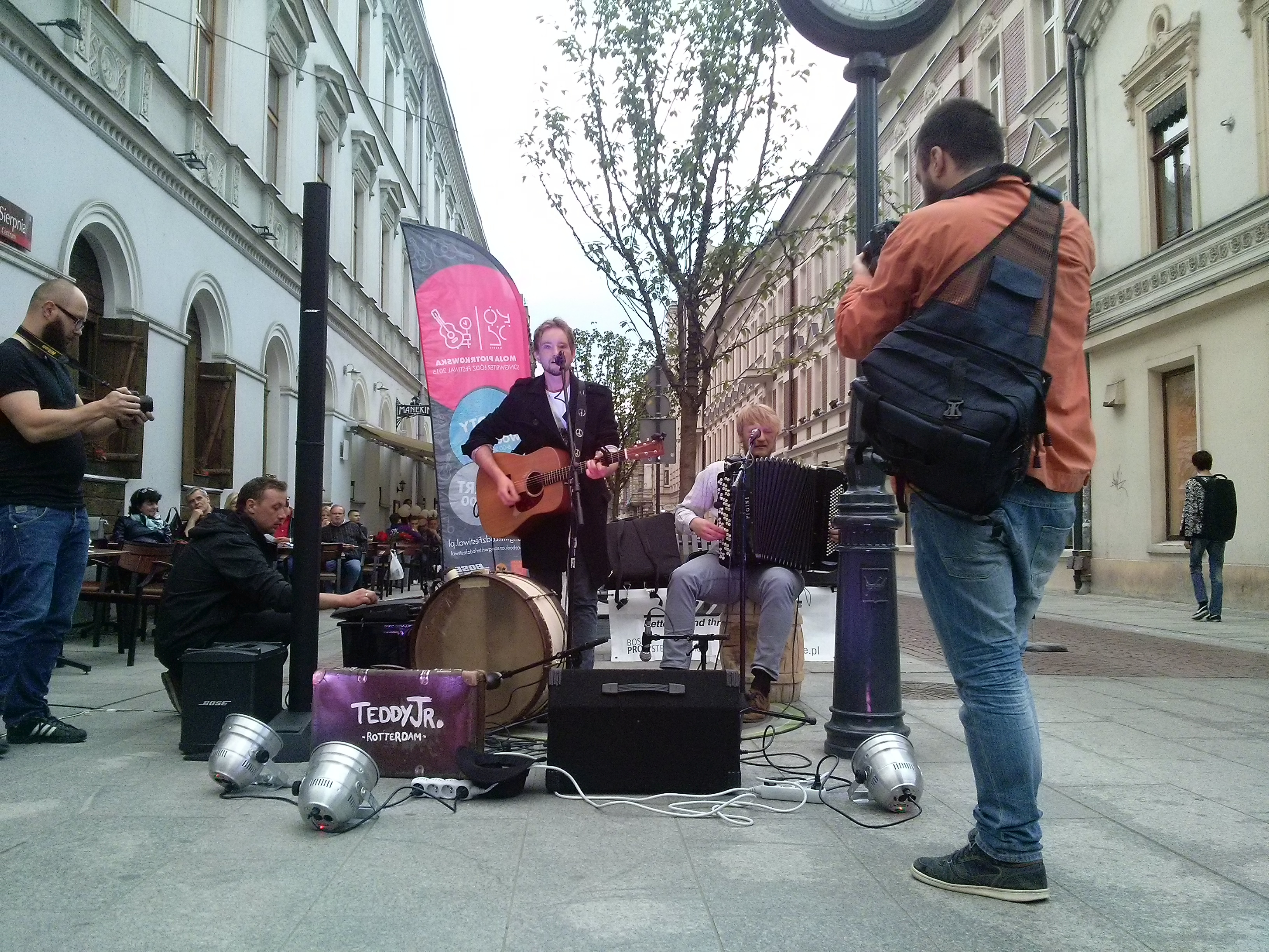 Concert at woonerf in Łódź, May 2015